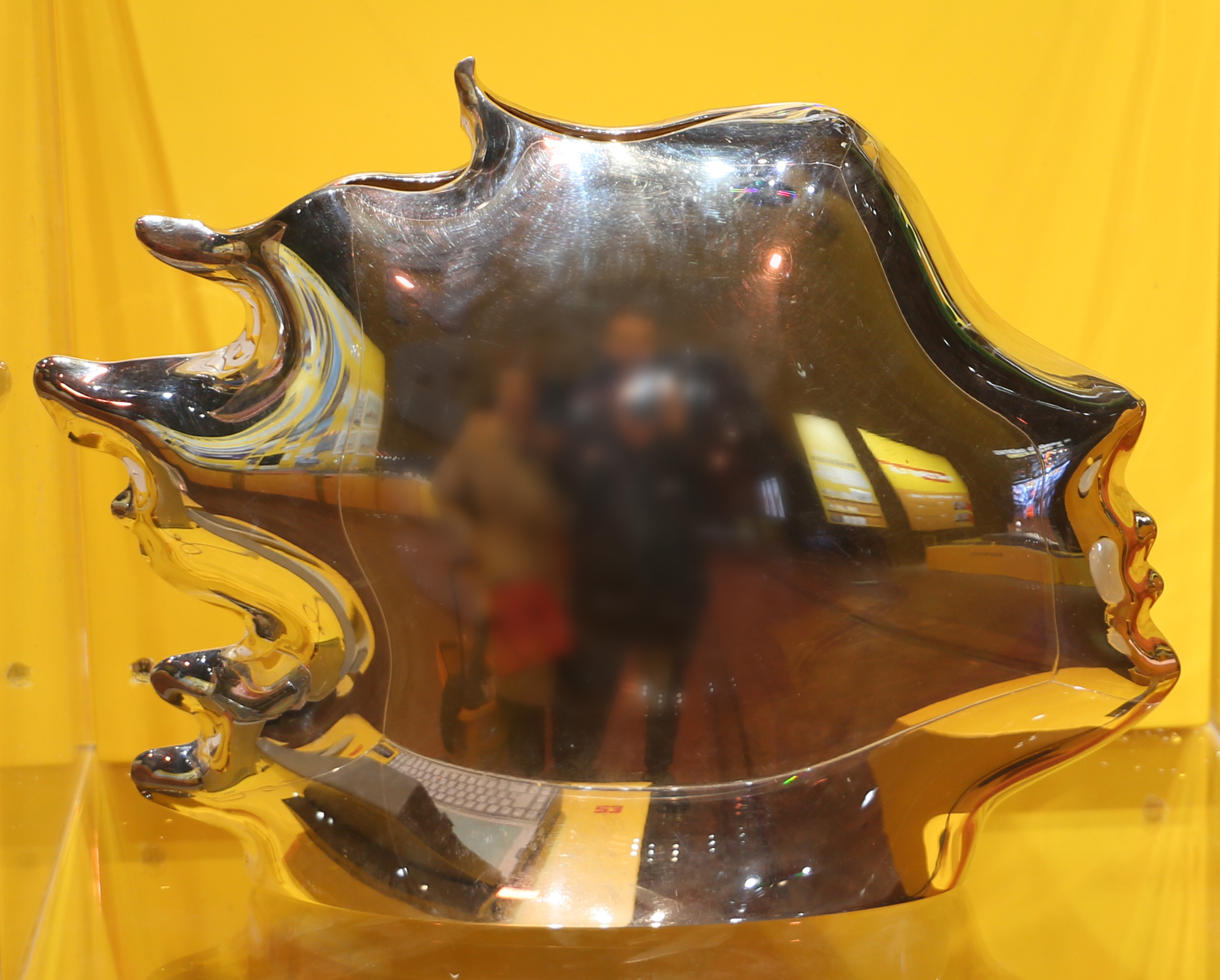 Supermostra Esselunga (Florence 2018)